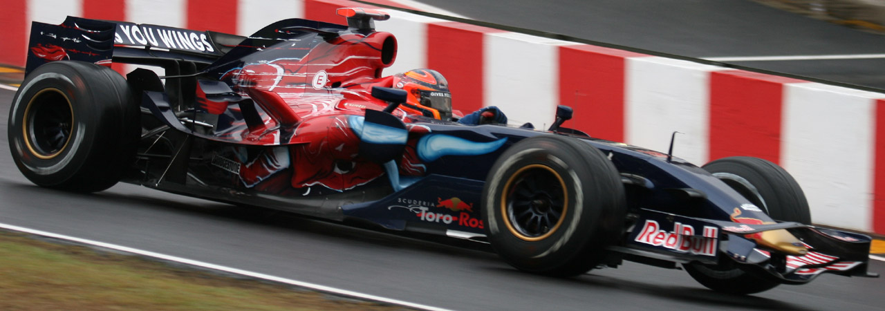 Formula One 2007 Rd.17 Brazilian GP: Vitantonio Liuzzi (Toro Rosso) at the free practice 1 on Friday